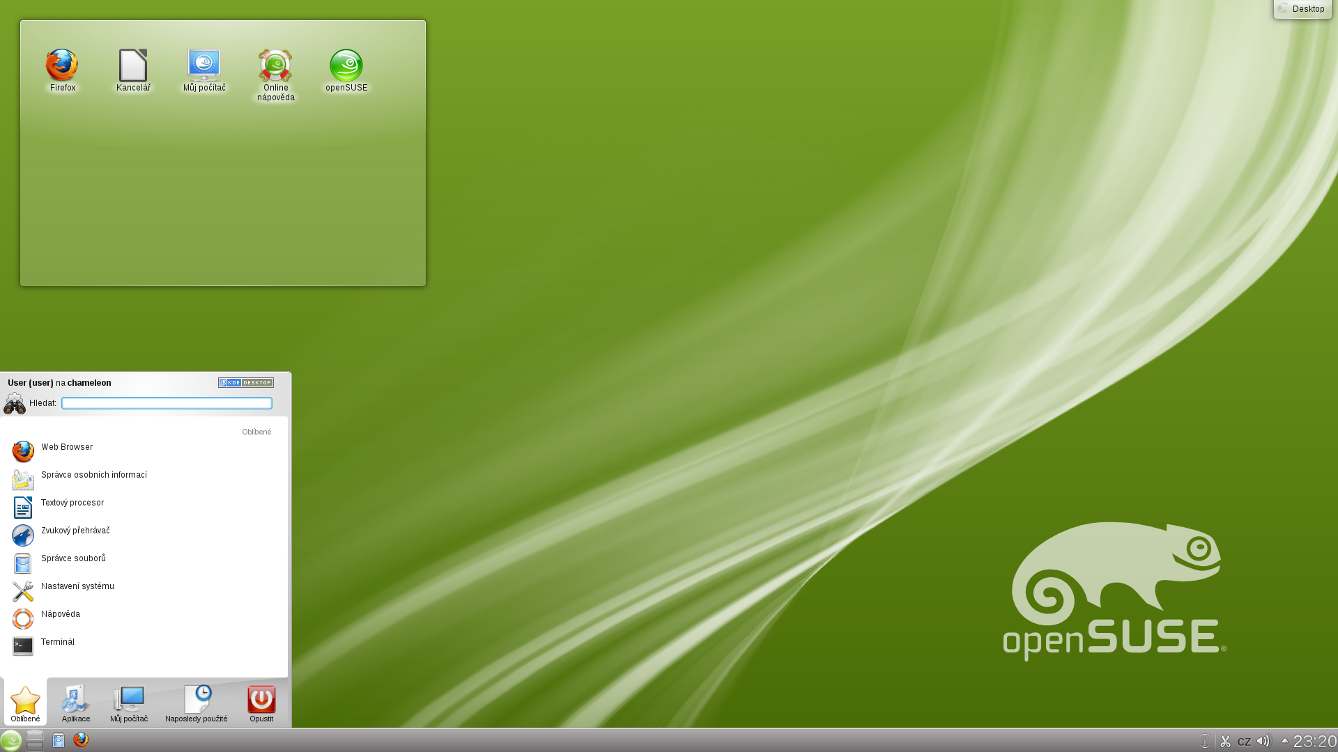 Desktop OpenSUSE12.1